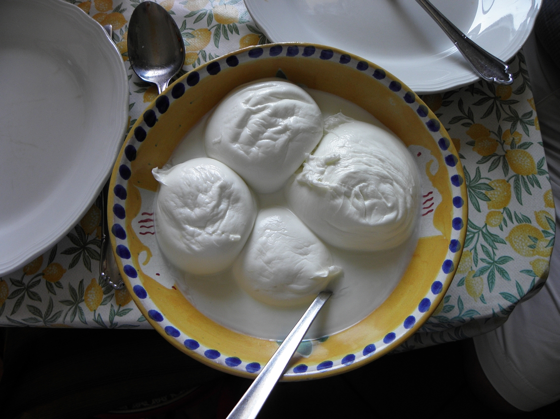 mix